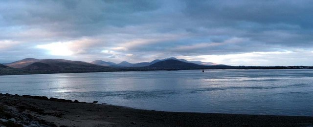 Mourne Mountains Range Panoramic view of the Mourne Mountains, as viewed from a carpark at Greenore, Eire.